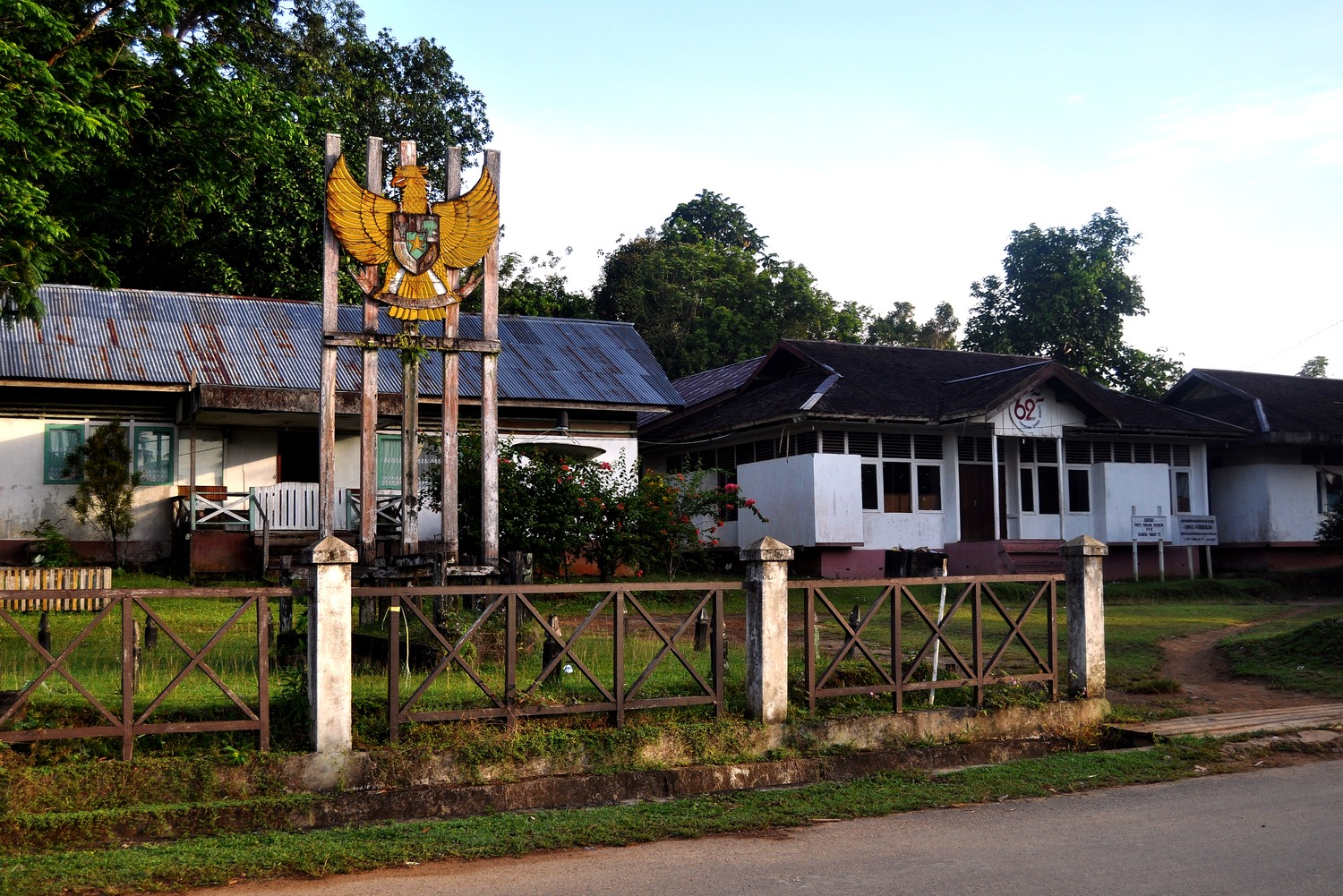 Local government offices in Tumbang Titi, West Kalimantan, Indonesia